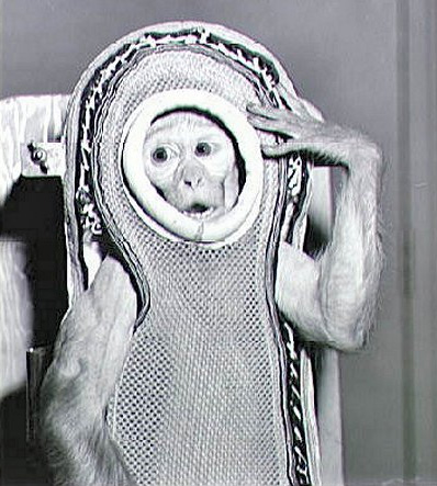 The test subject, a rhesus monkey named Sam, is seen encased in a model of the Mercury fiberglass contour couch. He will be flown on the Little Joe 2 as a test subject.